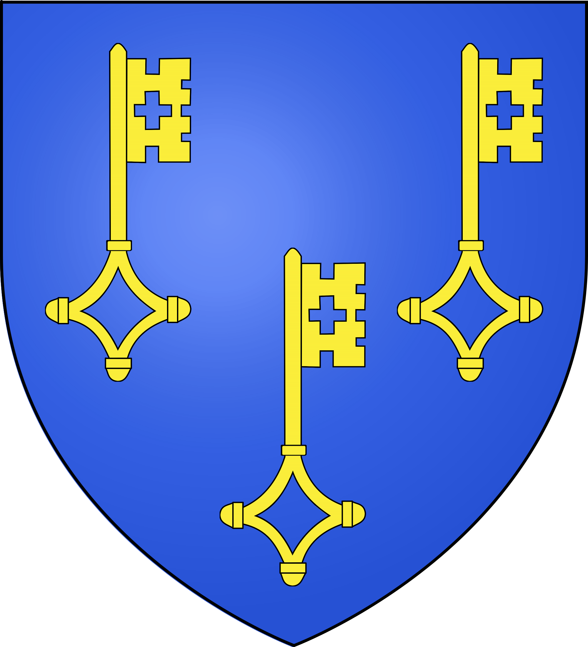 The coat of arms of Nicolas Rolin, Chancelor of the duke of Burgundy, founder of the Hospices de Beaune.